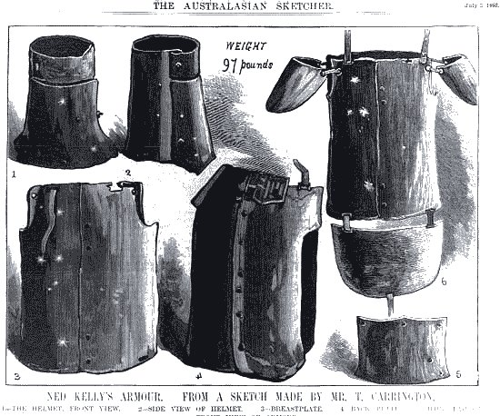 Ned Kelly's armor, from an illustration dated 1880